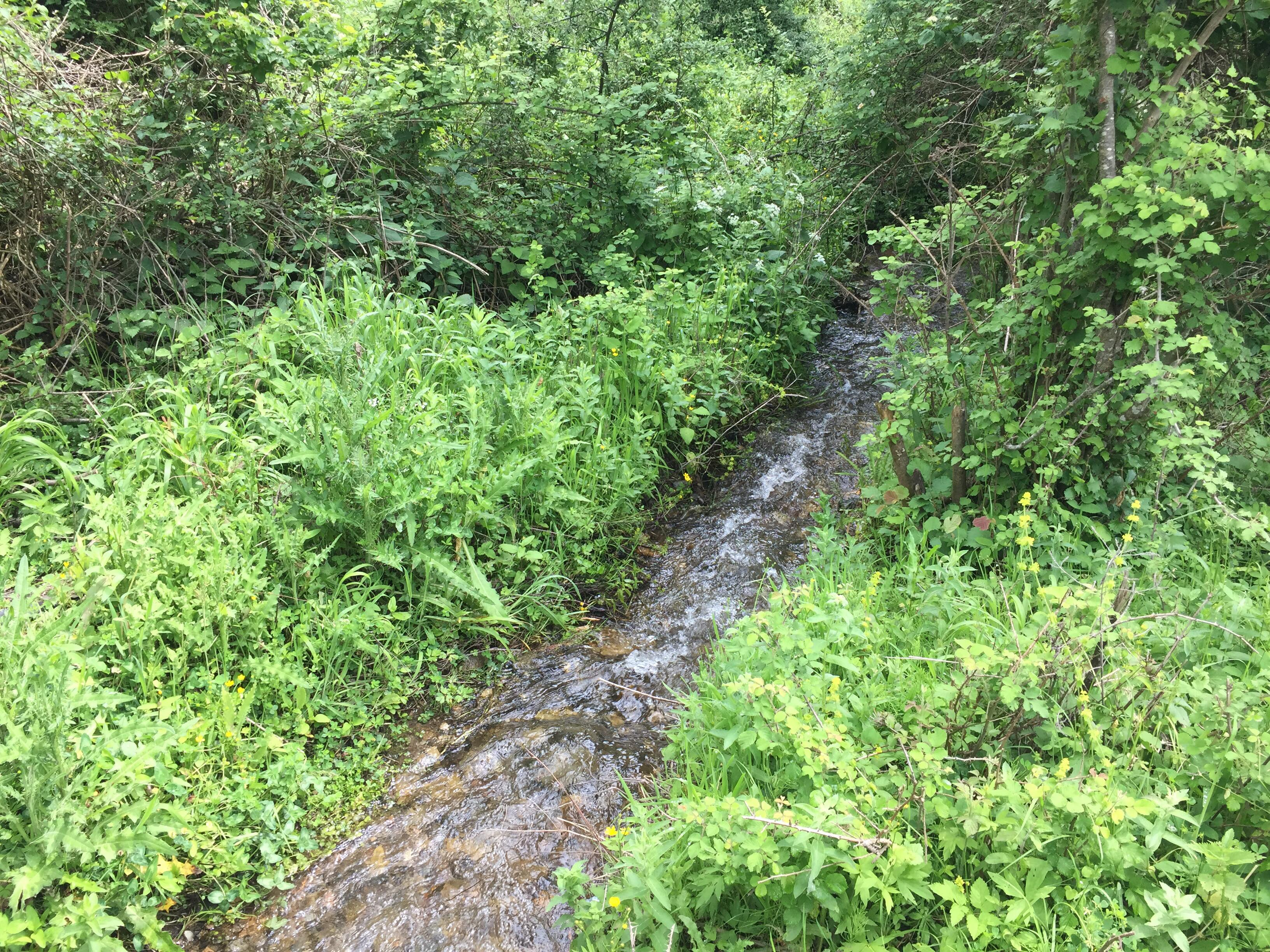 Rastanska River